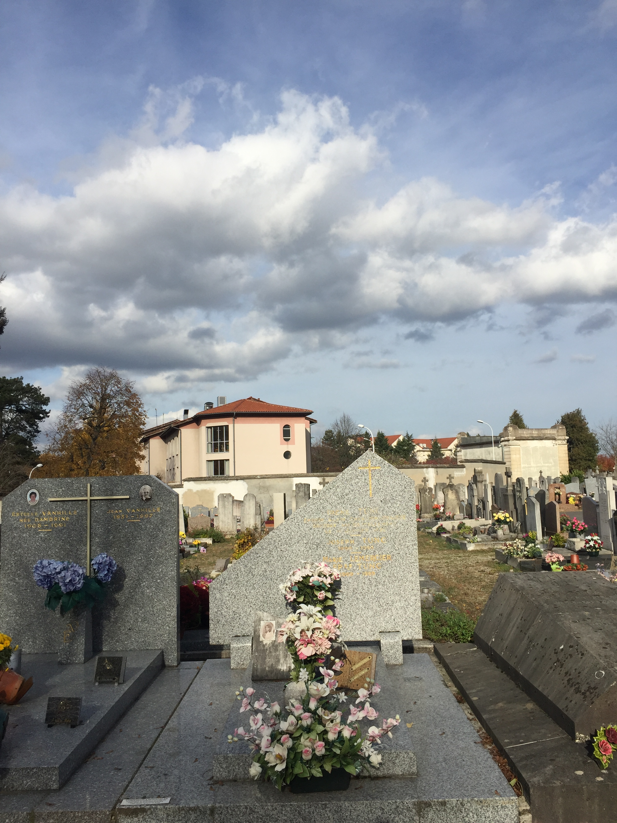 Cemetery of Croix-Rousse (new).